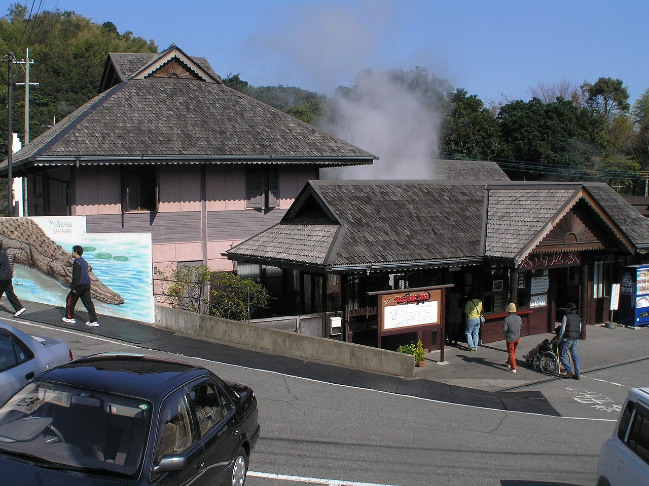 An entrance of Oniyama-Jigoku or Demon Mountain Hell in the Kannawa Jigoku area.